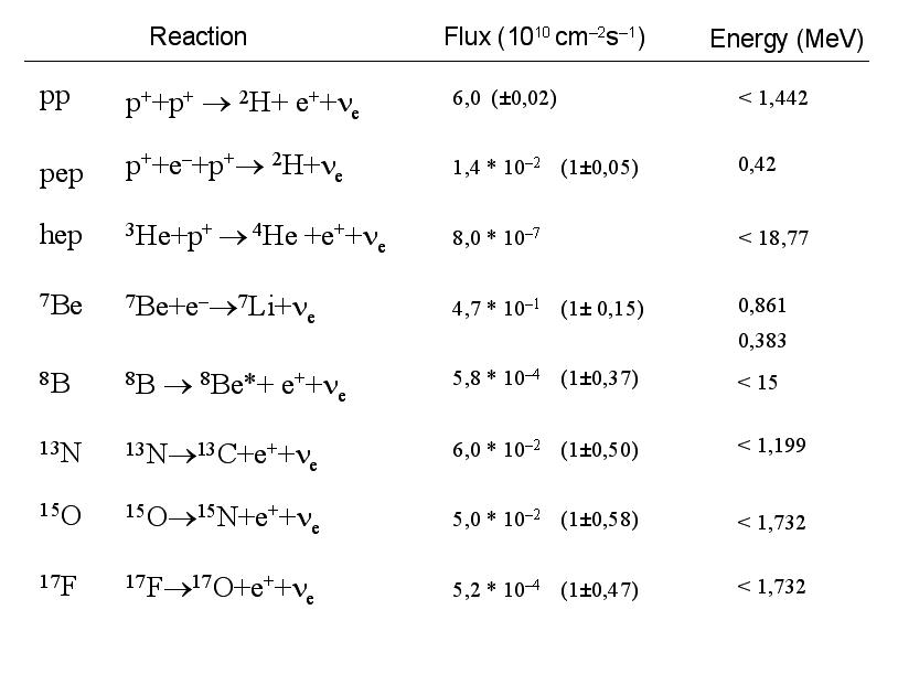 solar neutrino fluxes